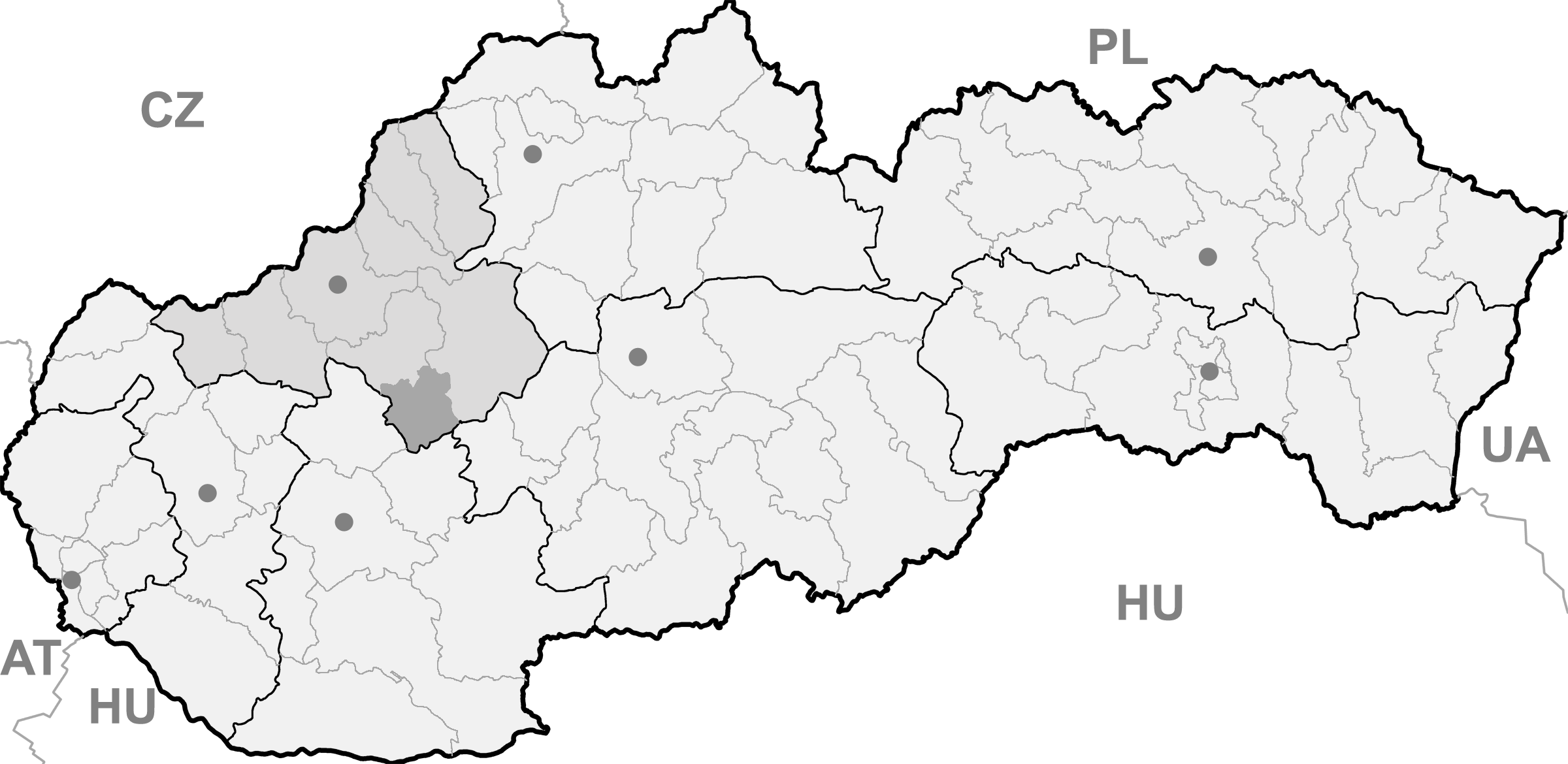 Map of Slovakia, Partizánske district and Trencin region highlighted